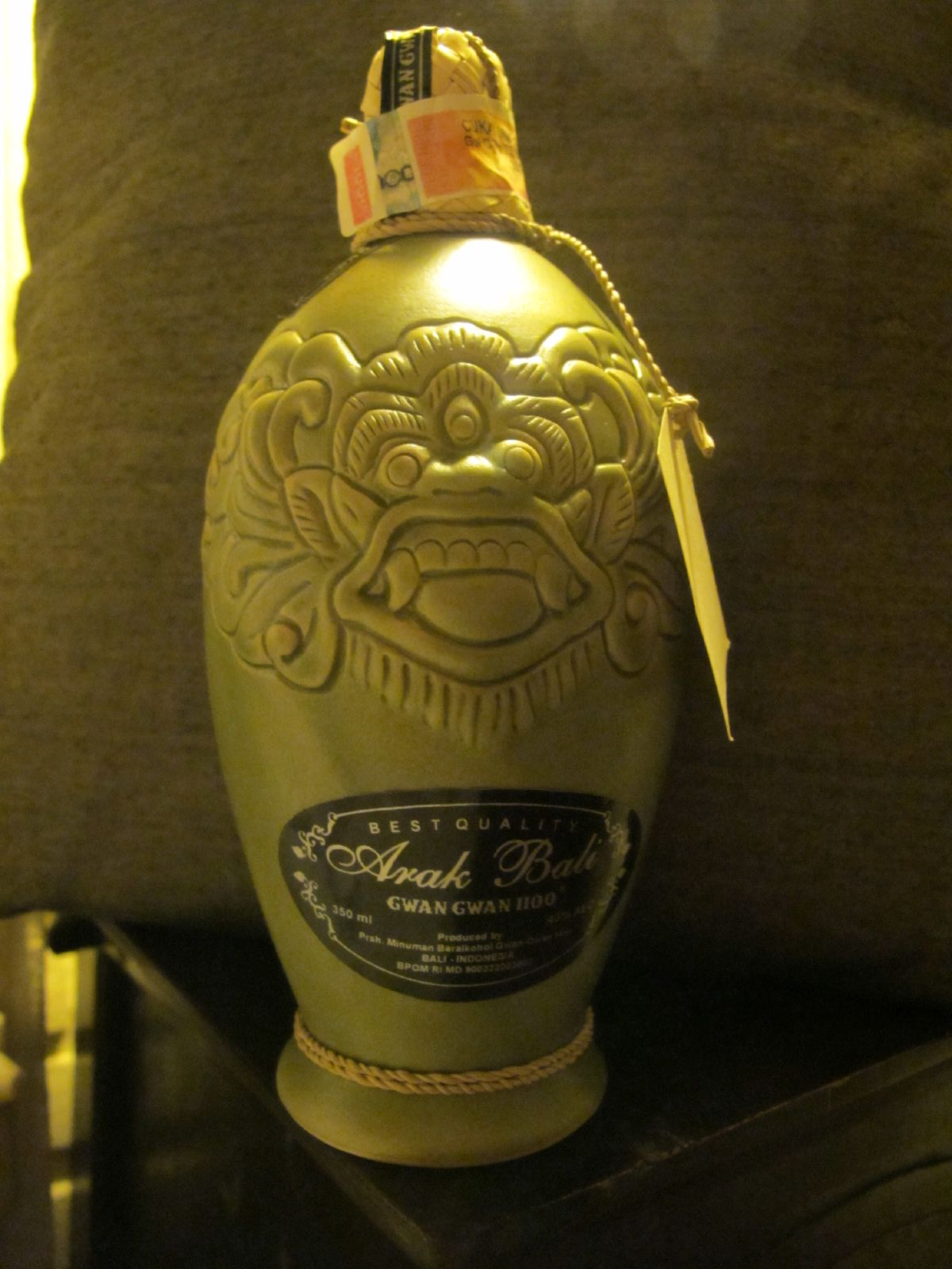 Balinese Arrack